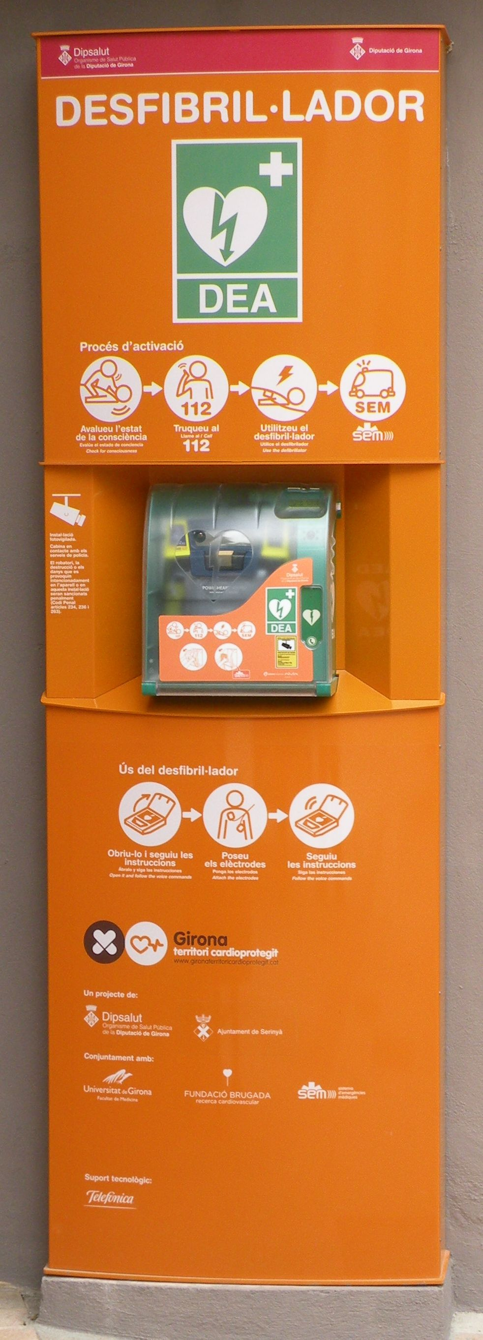 AED of Catalunya, full front view